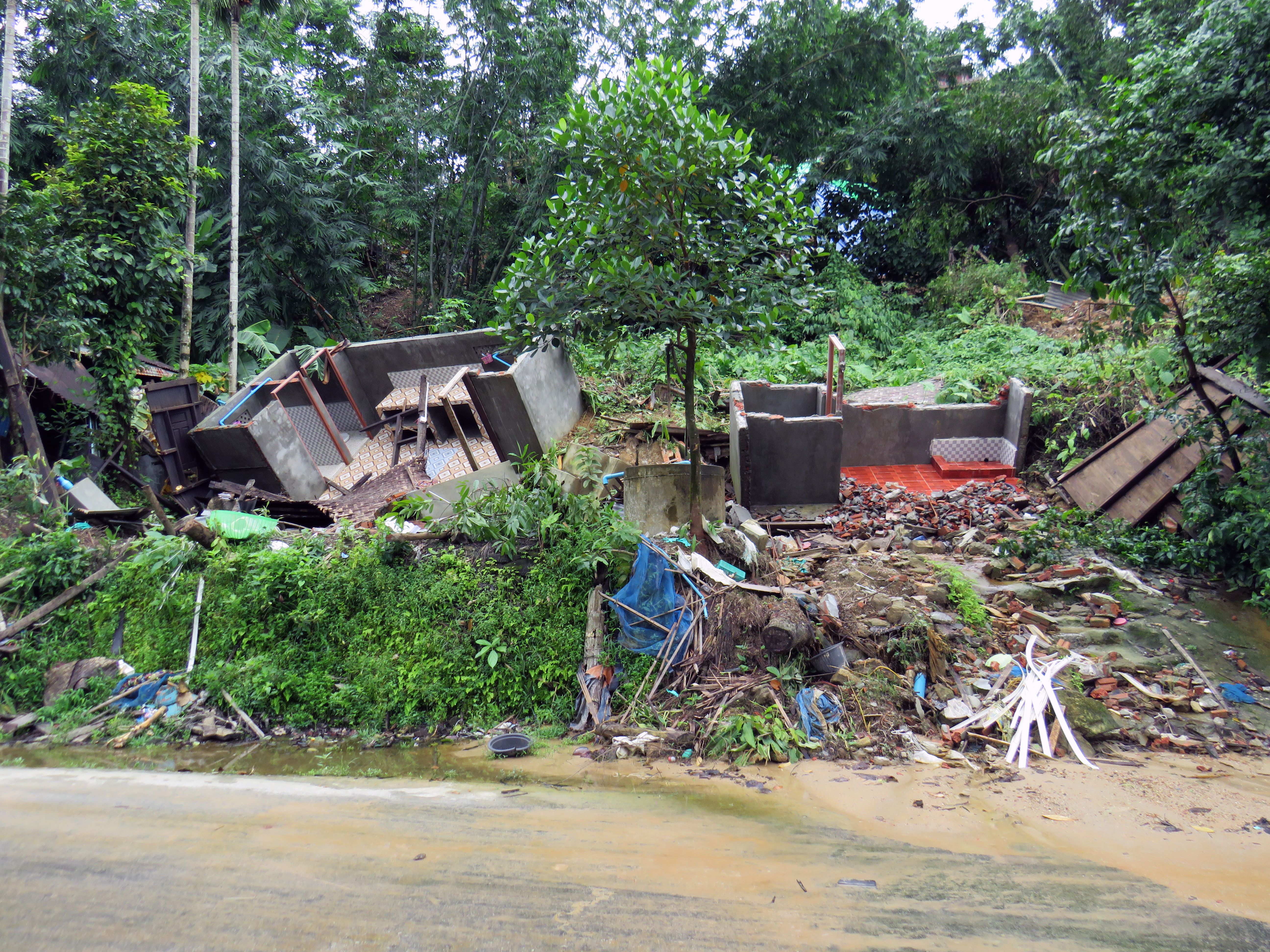 Landslide in Ka Lawt village, Chaungzon Township